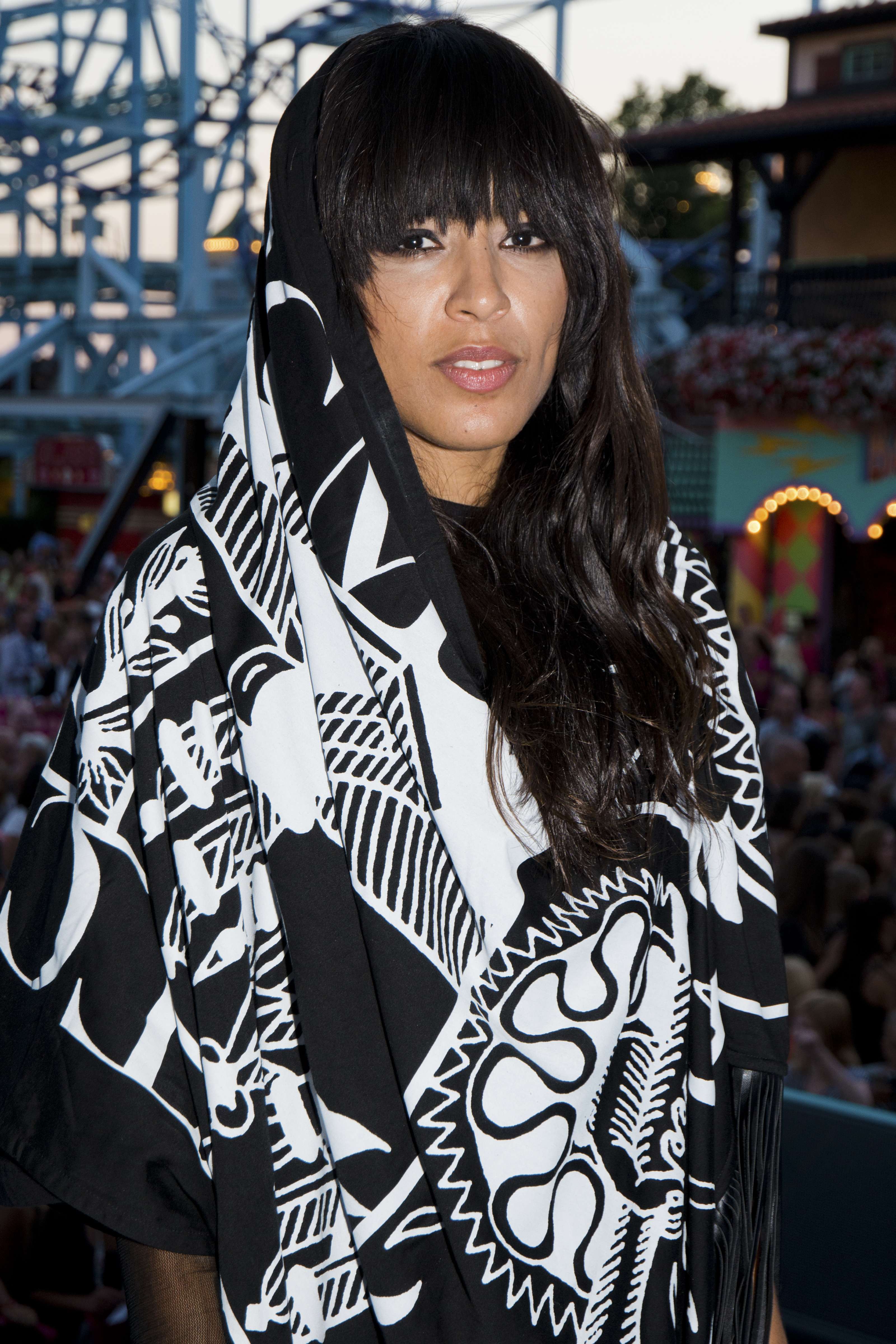 Loreen visting the show Sommarkrysset 2013 at Gröna Lund, Stockholm